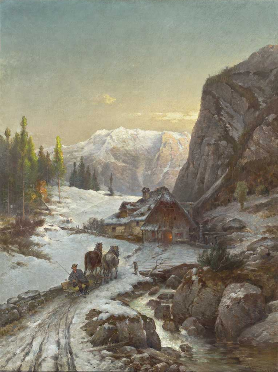 Winterliche Hochgebirgslandschaft. Im Vordergrund Waldbauer mit zweispännigem Schlitten auf dem Weg zu einer alten Mühle